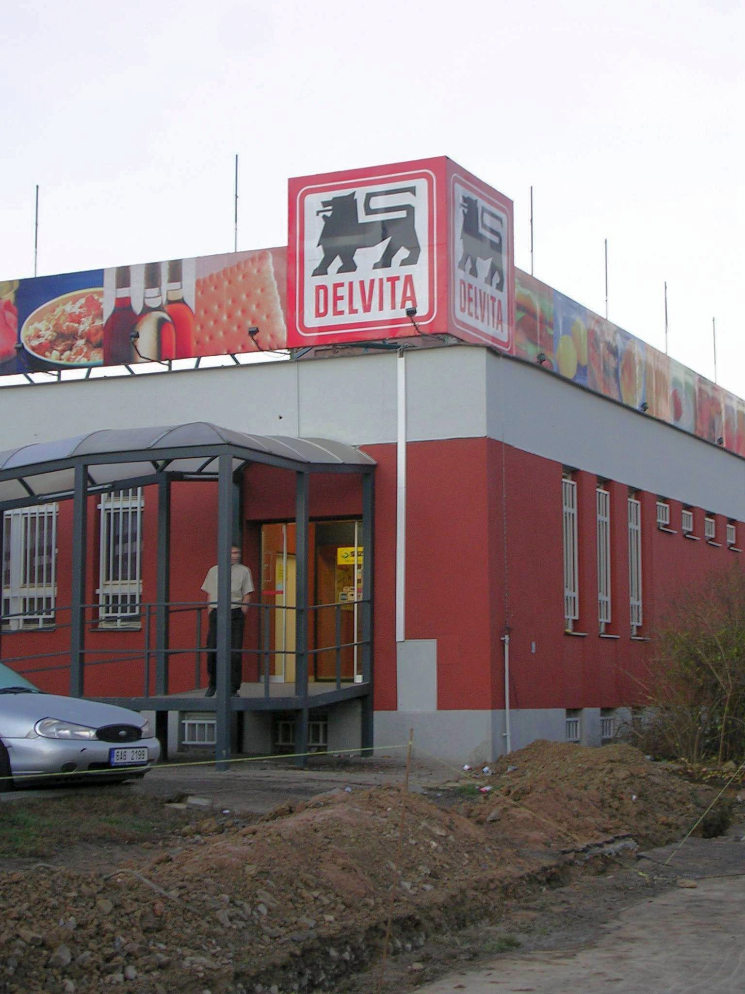 store Delvita, Prague. Česky: Obchodní dům Delvita, Praha, Barrandov